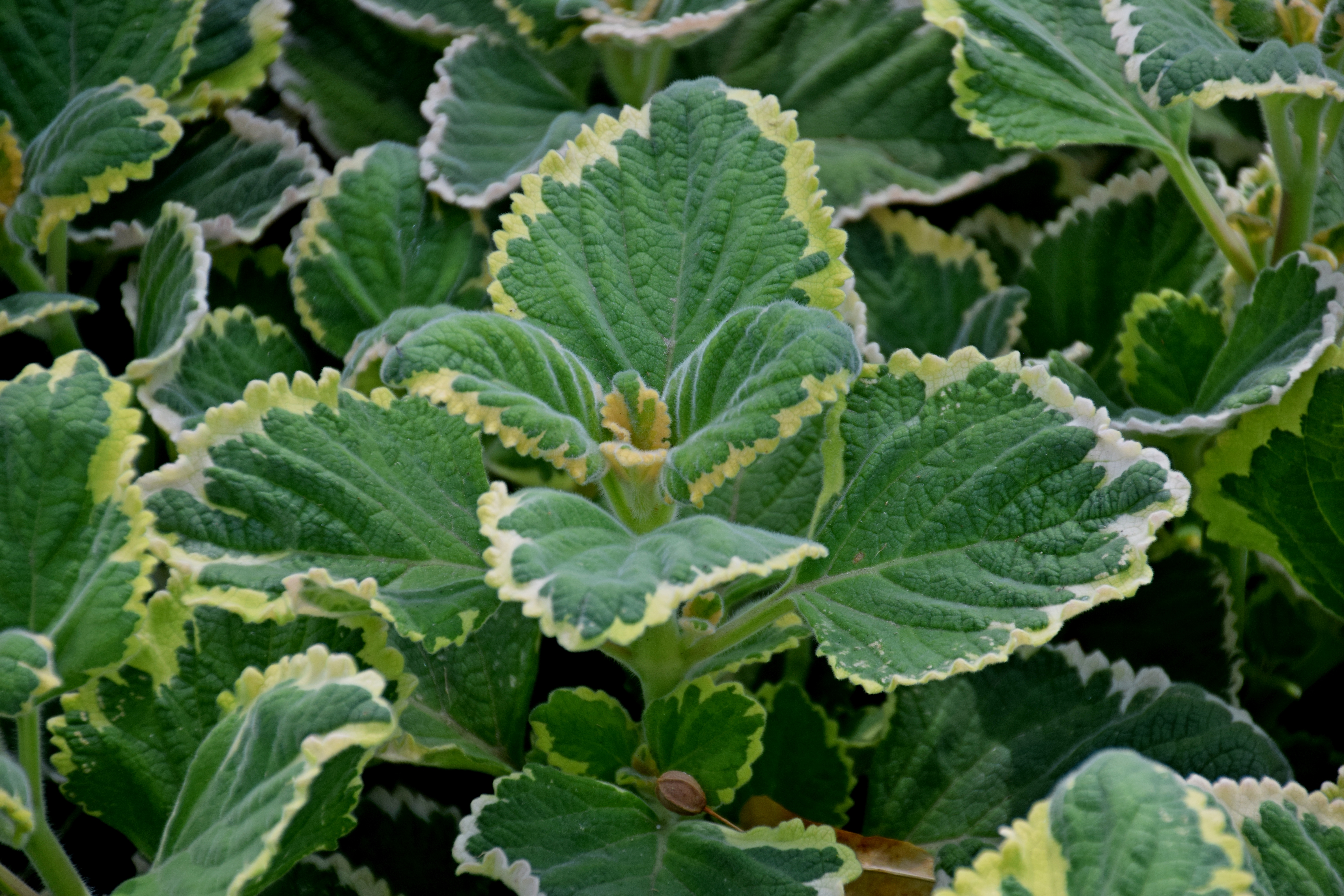 Plectranthus ciliatus 'Sasha' in Jardin des Plantes de Toulouse